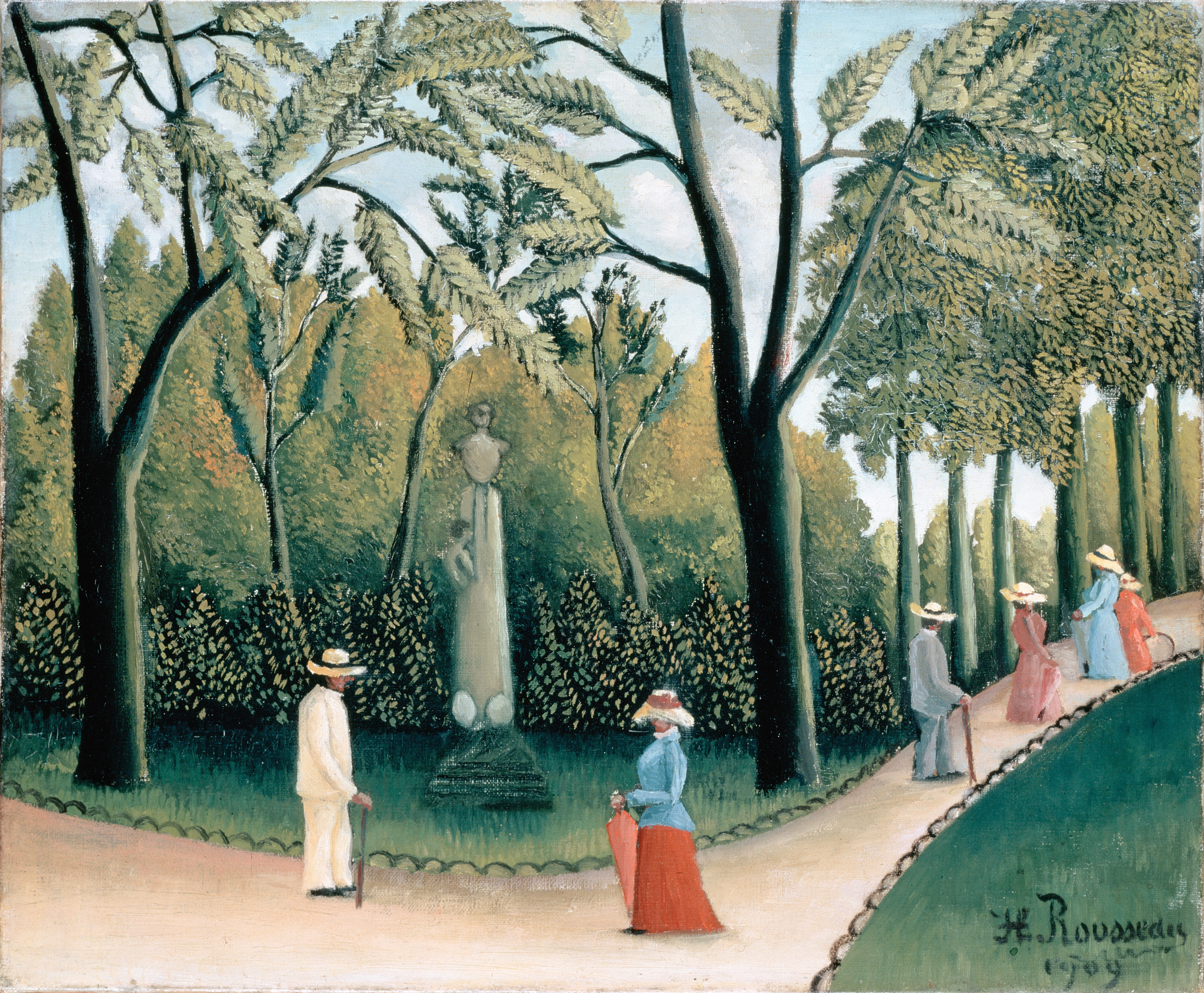 Depicted place: Jardin du Luxembourg The depicted sculpture by George Dubois was retired during World War II. It was replaced in 1999 by a another one by Boleslaw Syrewicz [1]